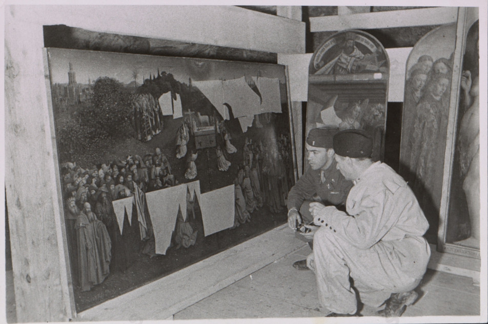 The Ghent Altarpiece recovered from the Altaussee salt mine at the end of World War II